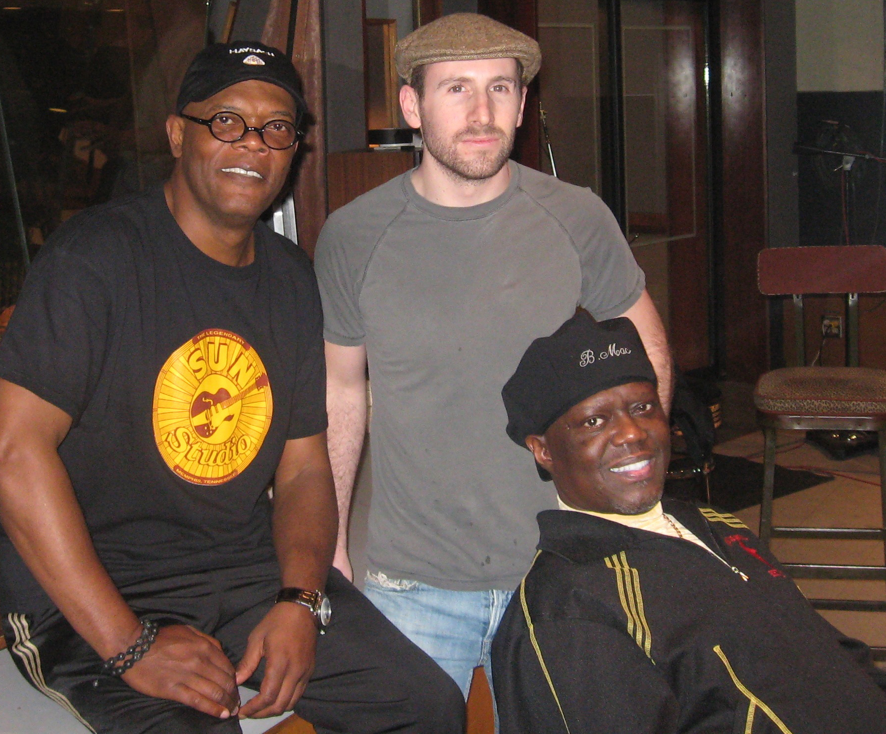 Samuel L. Jackson, Gabe Witcher, and Bernie Mac recording prerecords at Capitol Studios for Soul Men.